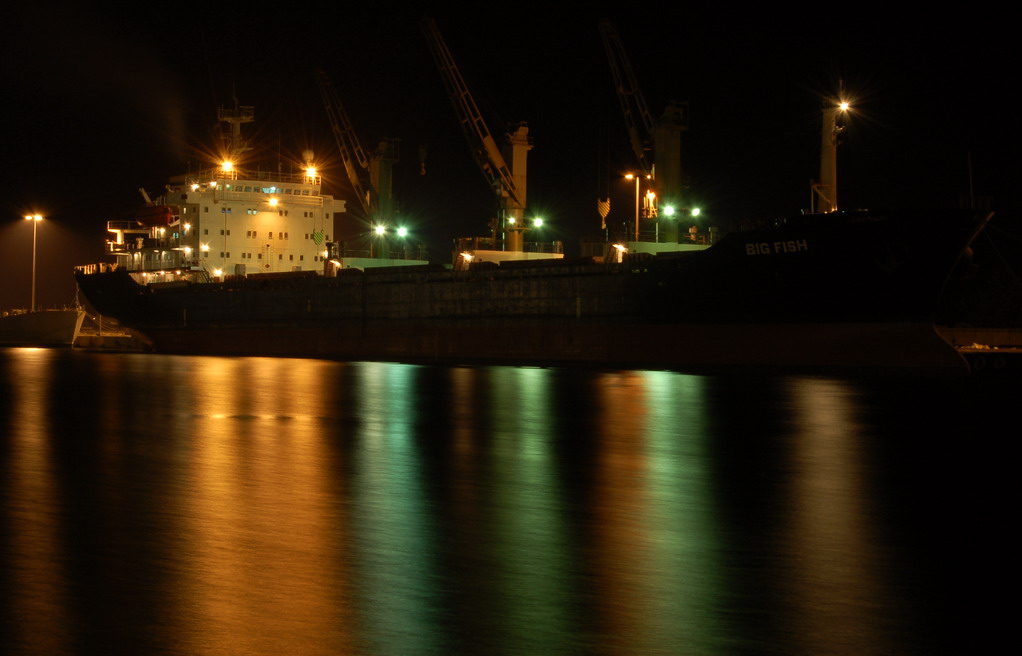 Tartus port